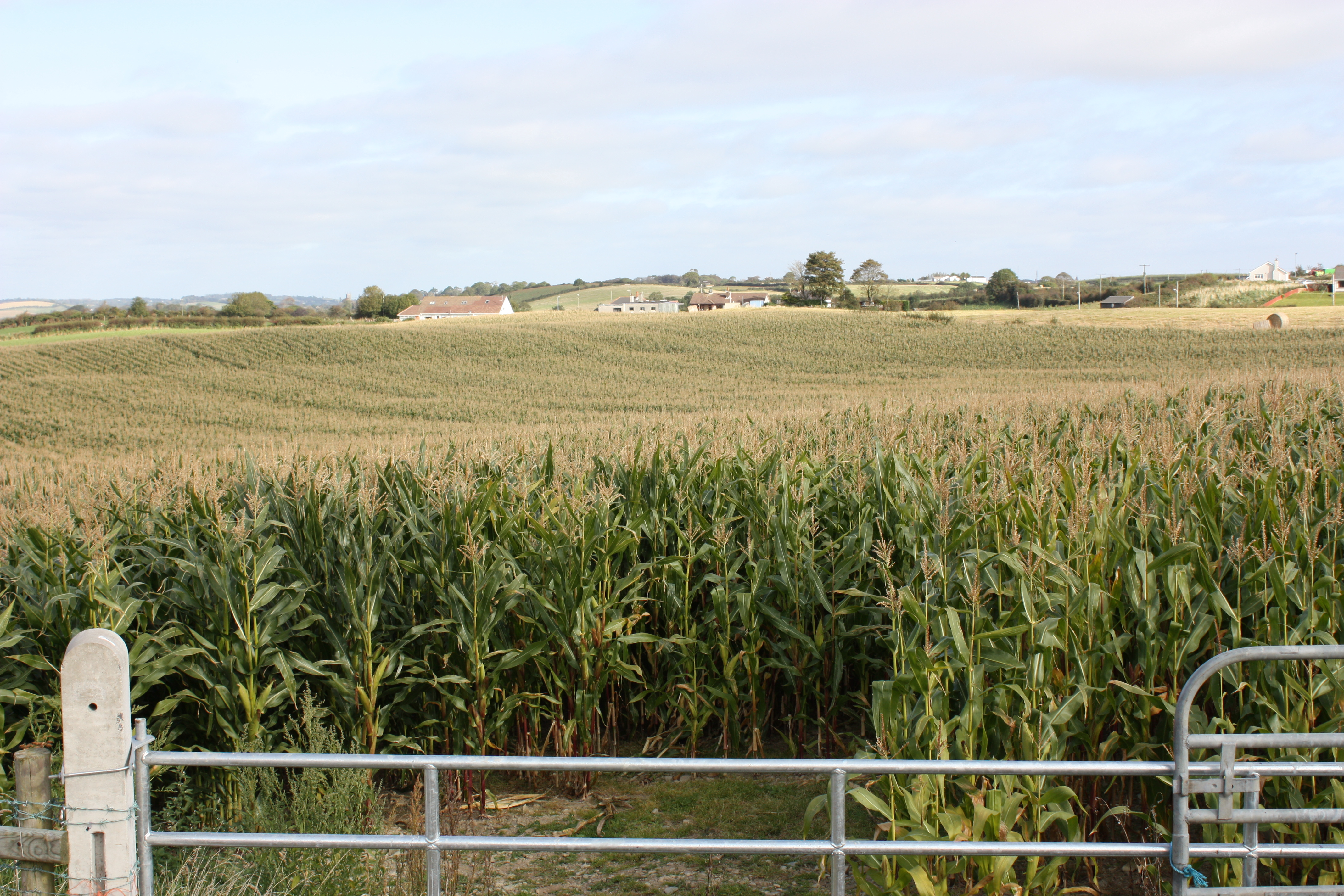 Field of maize, Ballynoe (near Downpatrick), County Down, Northern Ireland, September 2009